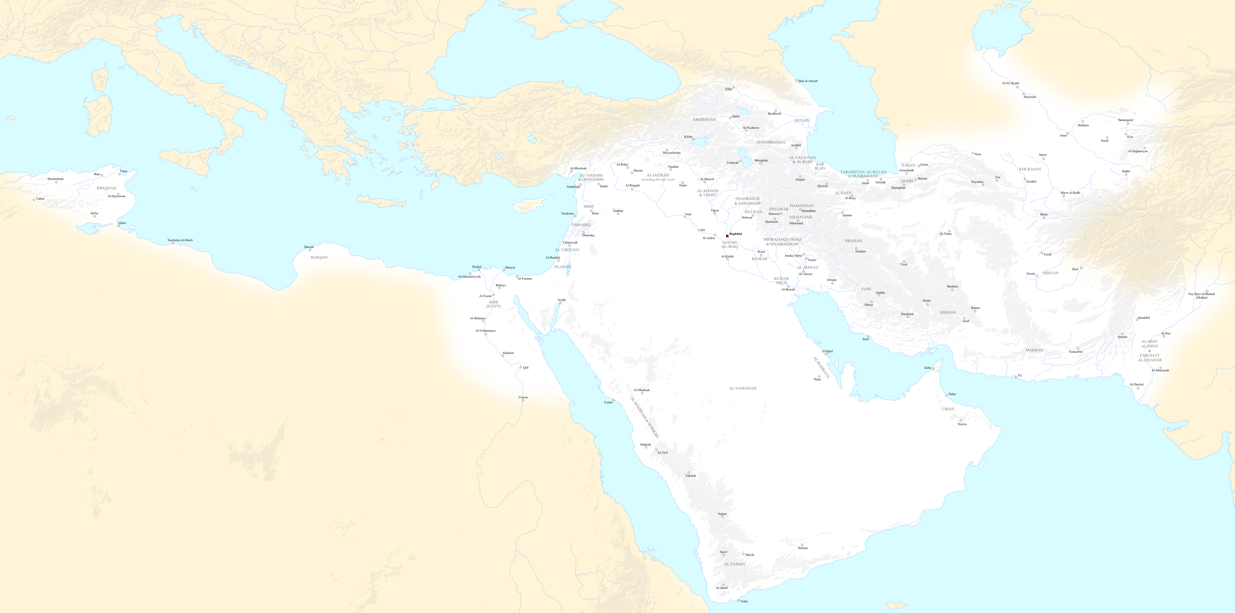 Map of the Abbasid Caliphate ca. 788 AD, showing provinces (in capitals) and major cities and towns. The provinces are derived from a revenue list in el-'Ali (Plate VIII). Cities were added based primarily on the works of Le Strange, Ibn Khurradadhbih, al-Muqaddasi, al-Tabari, and al-Baladhuri, as well as the Encyclopaedia of Islam, New Edition. Borders should be considered approximate only. Map created in Inkscape and converted to bitmap. Works Cited: El-'Ali, Saleh Ahmad. "A New Version of Ibn al-Mutarrif's List of Revenues in the Early Times of Harun al-Rashid." Journal of the Economic and Social History of the Orient 14.3 (1971): 303-310. Al-Baladhuri, Ahmad ibn Jabir. The Origins of the Islamic State, Part II. Trans. Francis Clark Murgotten (Q56027114). New York: Columbia University, 1924. The Encyclopaedia of Islam. New Ed. 12 vols. with supplement and indices. Leiden: E.J. Brill, 1960-2005. Gabrieli, Francesco. "Muhammad ibn Qasim ath-Thaqafi and the Arab Conquest of Sind." East and West 15/3-4 (1965): 281-295. Ibn Khurradadhbih, Abu al-Qasim 'Abd Allah. Kitab al-Masalik wa'l-Mamalik. Ed and trans. M.J. de Goeje. Leiden: E.J. Brill, 1889. Le Strange, Guy. The Lands of the Eastern Caliphate: Mesopotamia, Persia, and Central Asia, from the Moslem conquest to the time of Timur. Cambridge: Cambridge University Press, 1905. Al-Muqaddasi, Muhammad ibn Ahmad. The Best Divisions for Knowledge of the Regions. Trans. Basil Collins. Reading: Garner Publishing Limited, 2001. ISBN 1-85964-136-9 Al-Tabari, Abu Ja'far Muhammad ibn Jarir. The History of al-Tabari. Ed. Ehsan Yar-Shater. 40 vols. Albany, NY: State University of New York Press, 1985-2007.